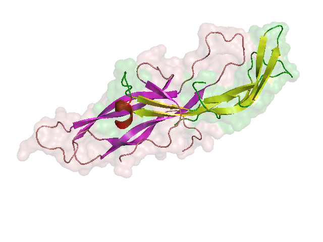 The structure of Human chorionic gonadotropin (from PDB 1HRP )